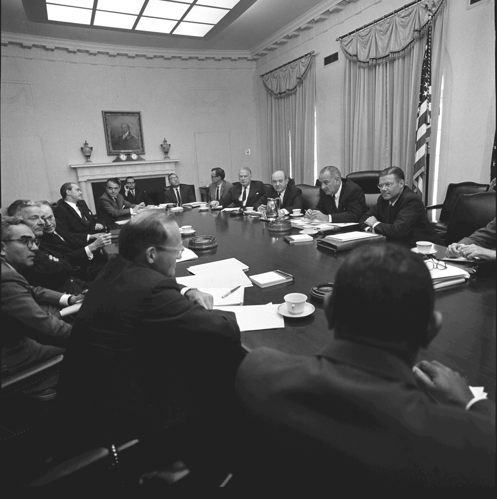 Carl Rowan (back to camera) foreground left. Clockwise from Rowan: McGeorge Bundy, Sec. Henry Fowler, Atty. Gen. Nicholas Katzenbach, Leonard Marks, Richard Helms, Adm. William Raborn, Amb. Henry Cabot Lodge, George Ball, Sec. Dean Rusk, Pres. Lyndon B. Johnson, Sec. Robert McNamara, Gen. Earle Wheeler, hands of John McNaughton. By windows in bkg: William Bundy (?), Llewellyn Thompson.